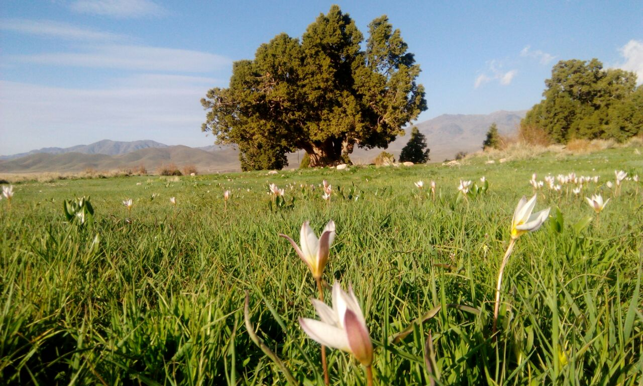 Sarbijan